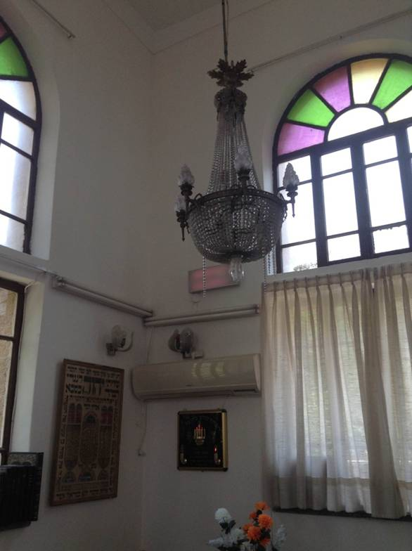 Or Zaruaa synagogue Jerusalem Israel interior. High ceiling, long tall windows, decorated with color stained glass, curved at the top. Big lamps Italian chandelier .